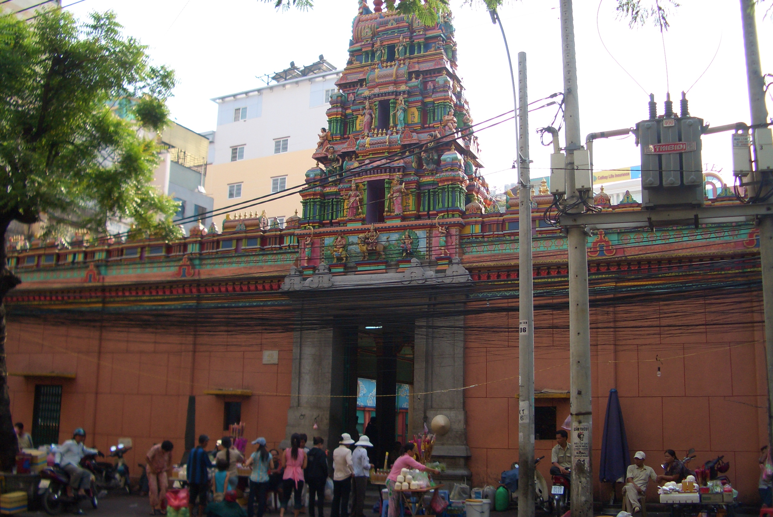 The Sri Mariamman Hindu temple built in the Pallava Tamil style in Ho Chi Minh city, Vietnam